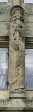 Statue of Faith by John Cobbet